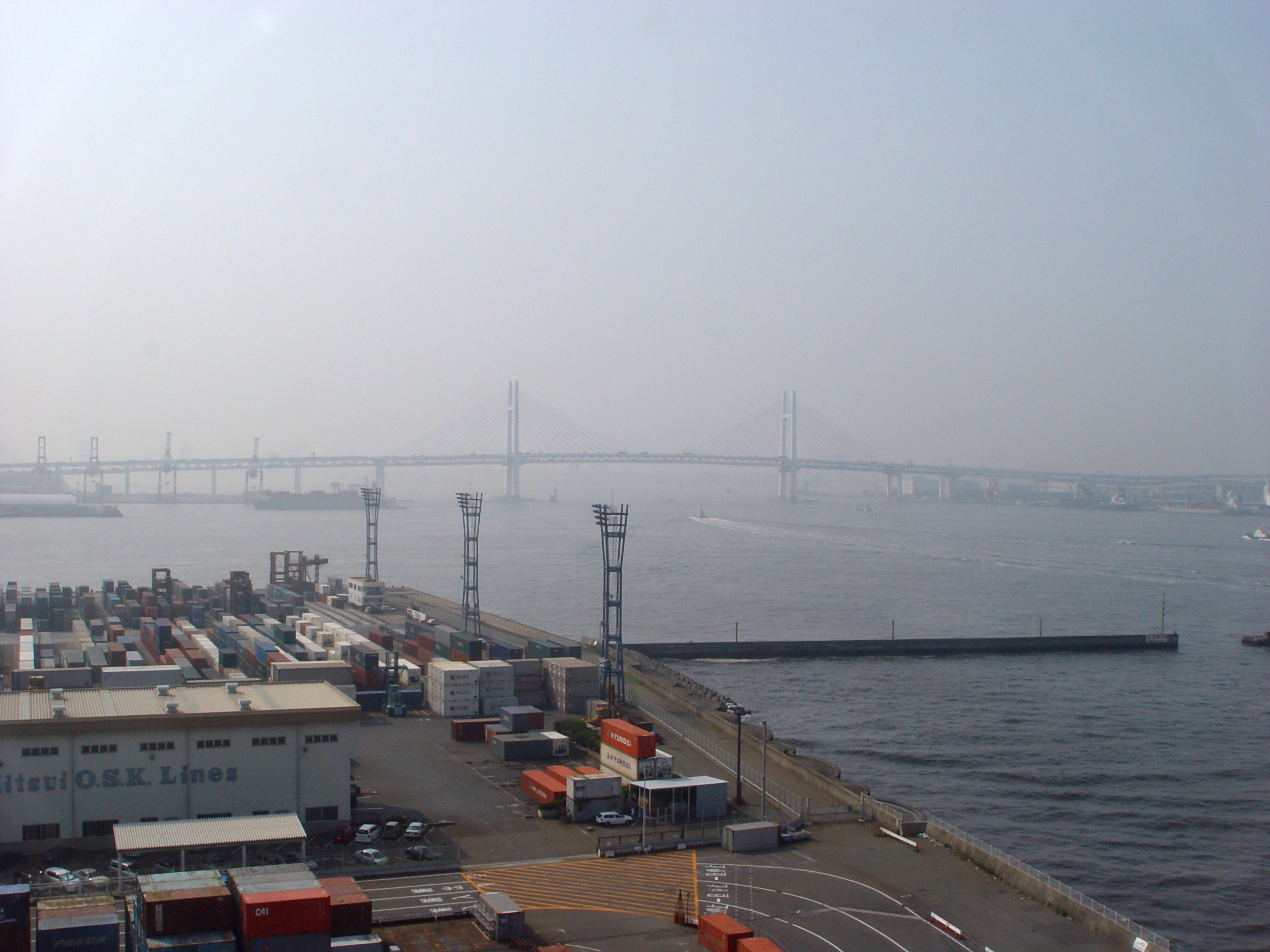 Scenery from Yokohama port symbol tower